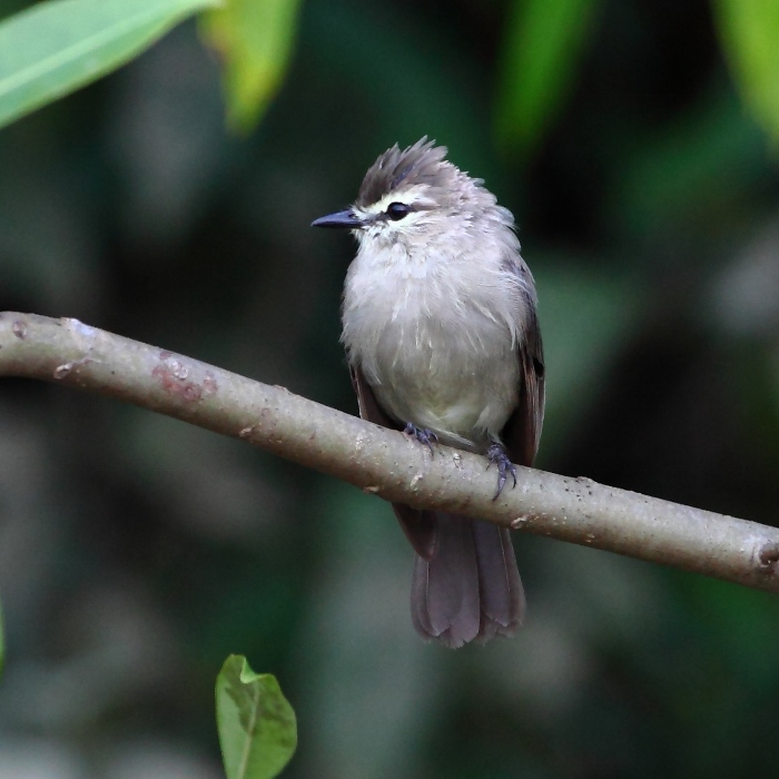 Drab Water-Tyrant at Apiacás river - MT - Brazil